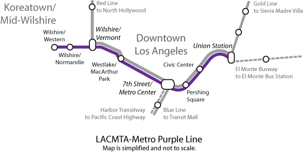 Map of the Purple Line in Los Angeles.